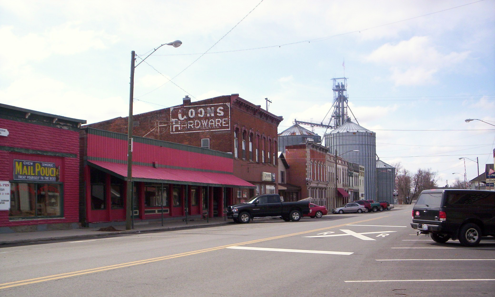 A view of downtown Nevada, Ohio on North Main Street (Ohio State Route 231) looking south near the Norfolk Southern Railway.